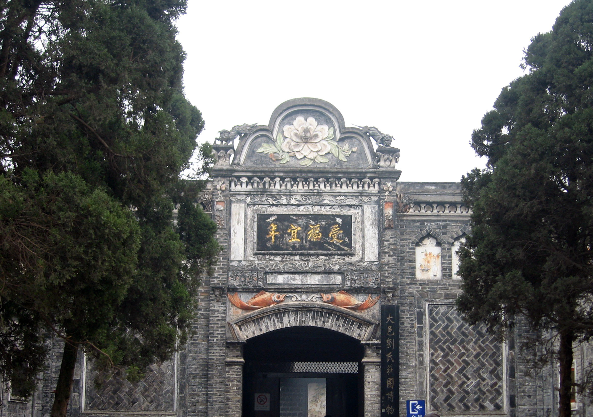 Liu's Manor House in Dayi. It's Located in Chengdu, Sichuan Provence, PRC. / 中国成都大邑的刘式庄园